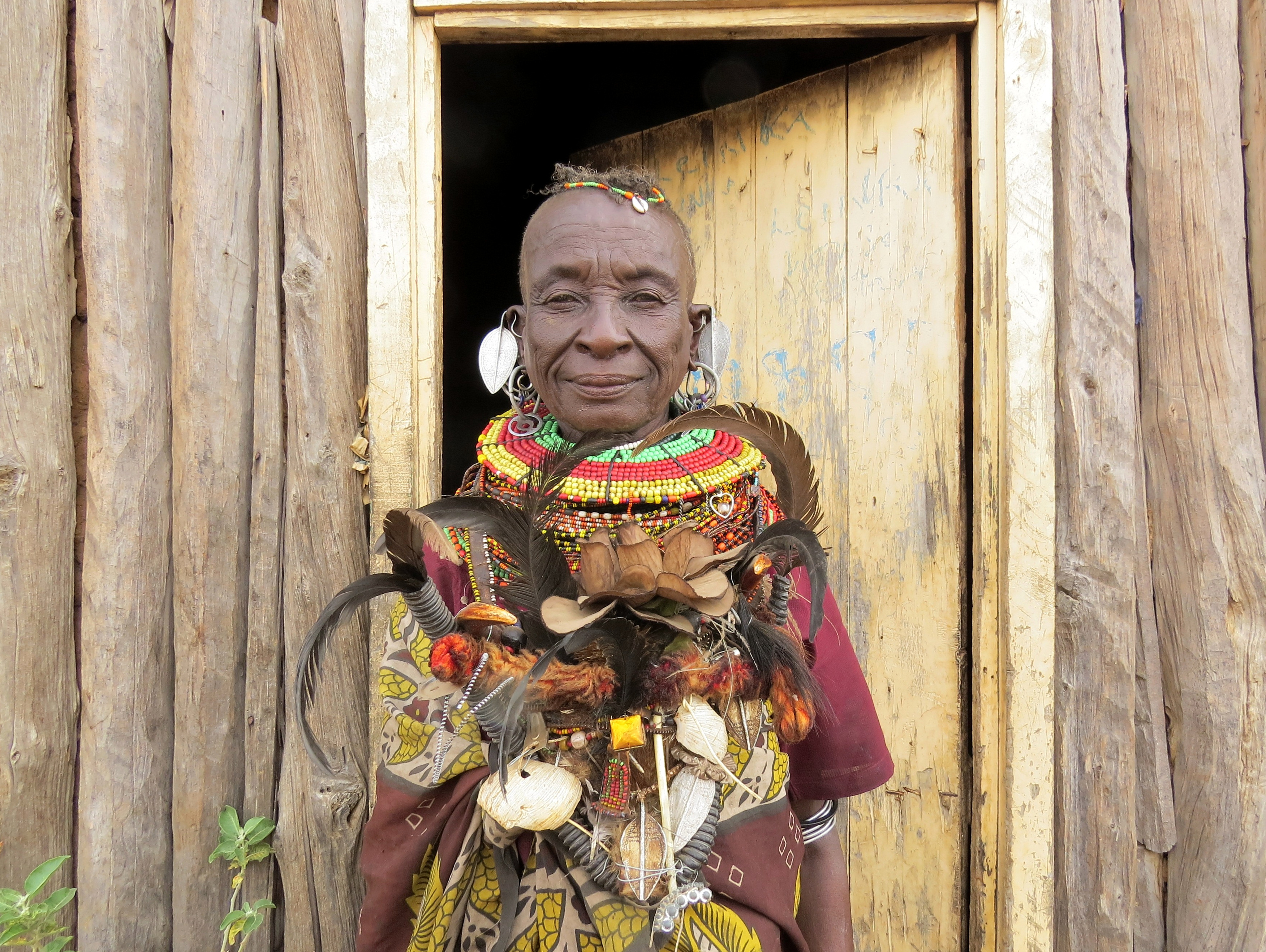 This is a job, and one of the most respected in local society. Her wood-clad house - in a village characterized by mud-walled huts - is a token of her success. She stands at her door with some tools of her trade. This is an image of "African people at work" from Kenya